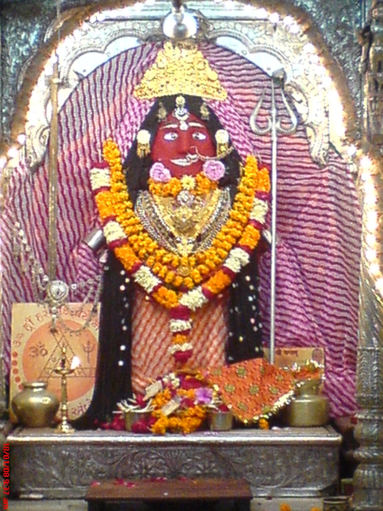 Harsiddhi mataji -hindu goddess